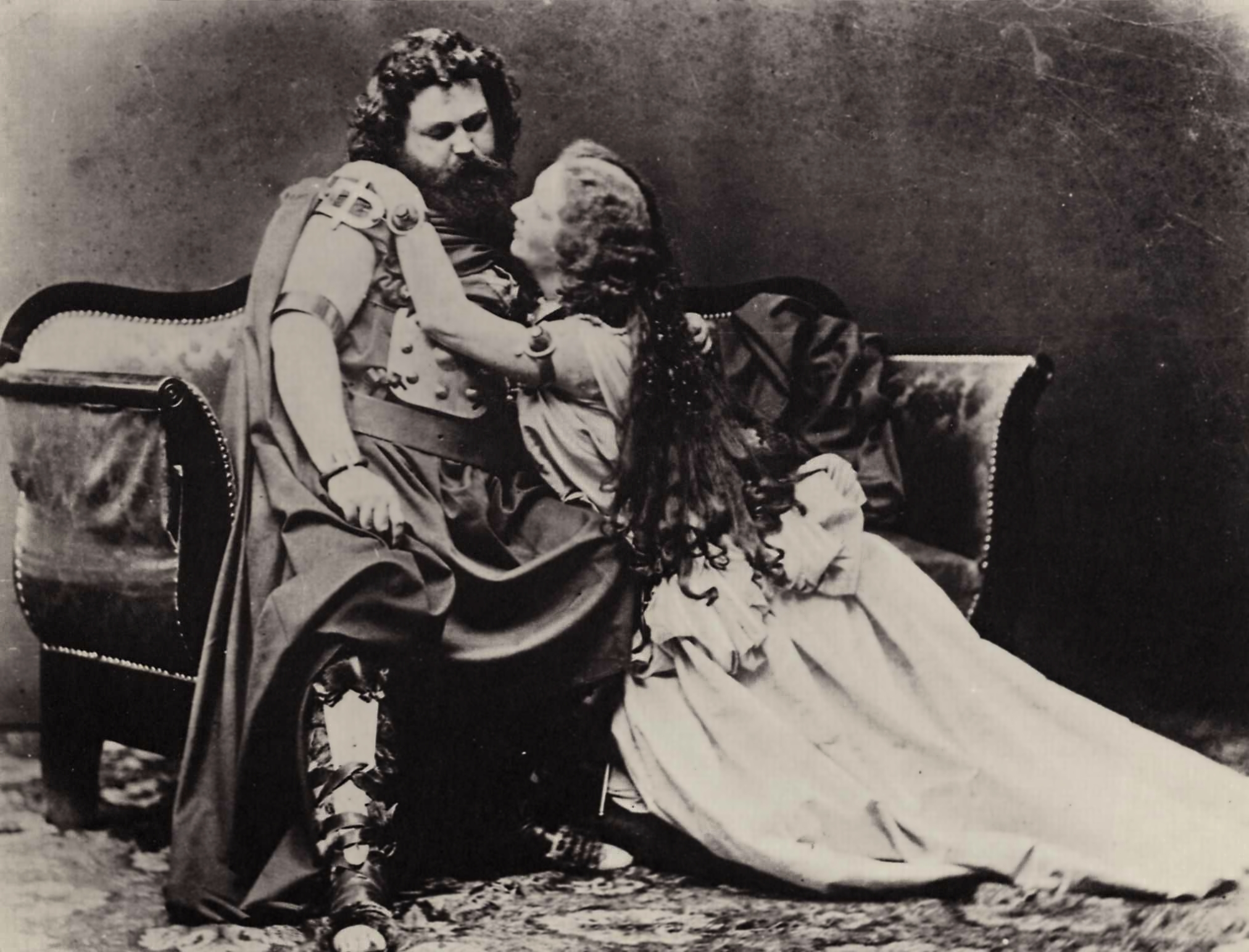 Ludwig and Malwine Schnorr von Carolsfeld in the title roles of the original production of Richard Wagner's Tristan und Isolde in 1865.